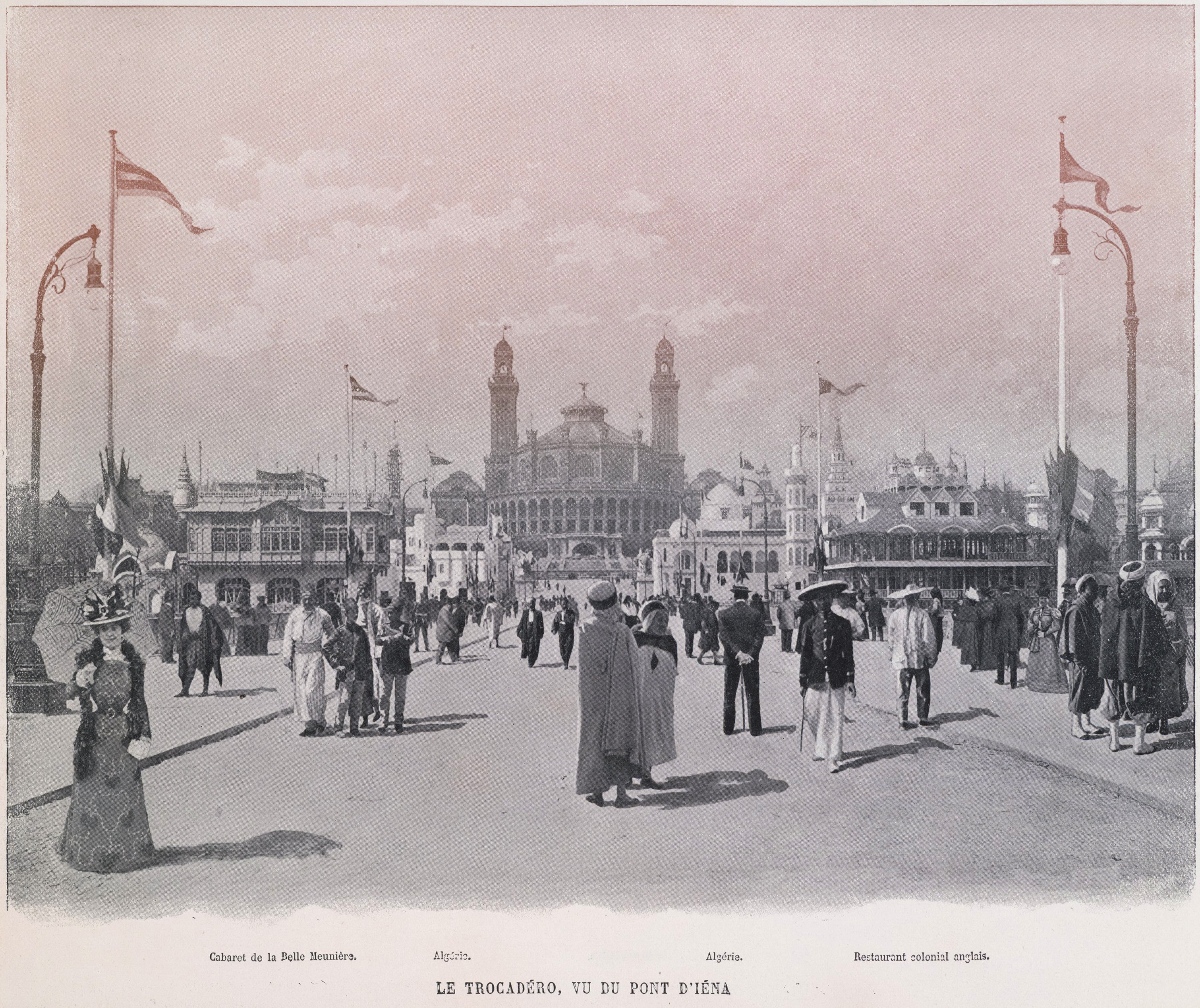 View of the Trocadéro during the 1900 Paris World Fair. The Trocadéro Palace represented in this picture had been built for the 1878 World Fair, and was to be destroyed by a fire in 1935. The two buildings on each side of the Trocadéro are the Algerian Attractions Palace and the Algerian pavilion.